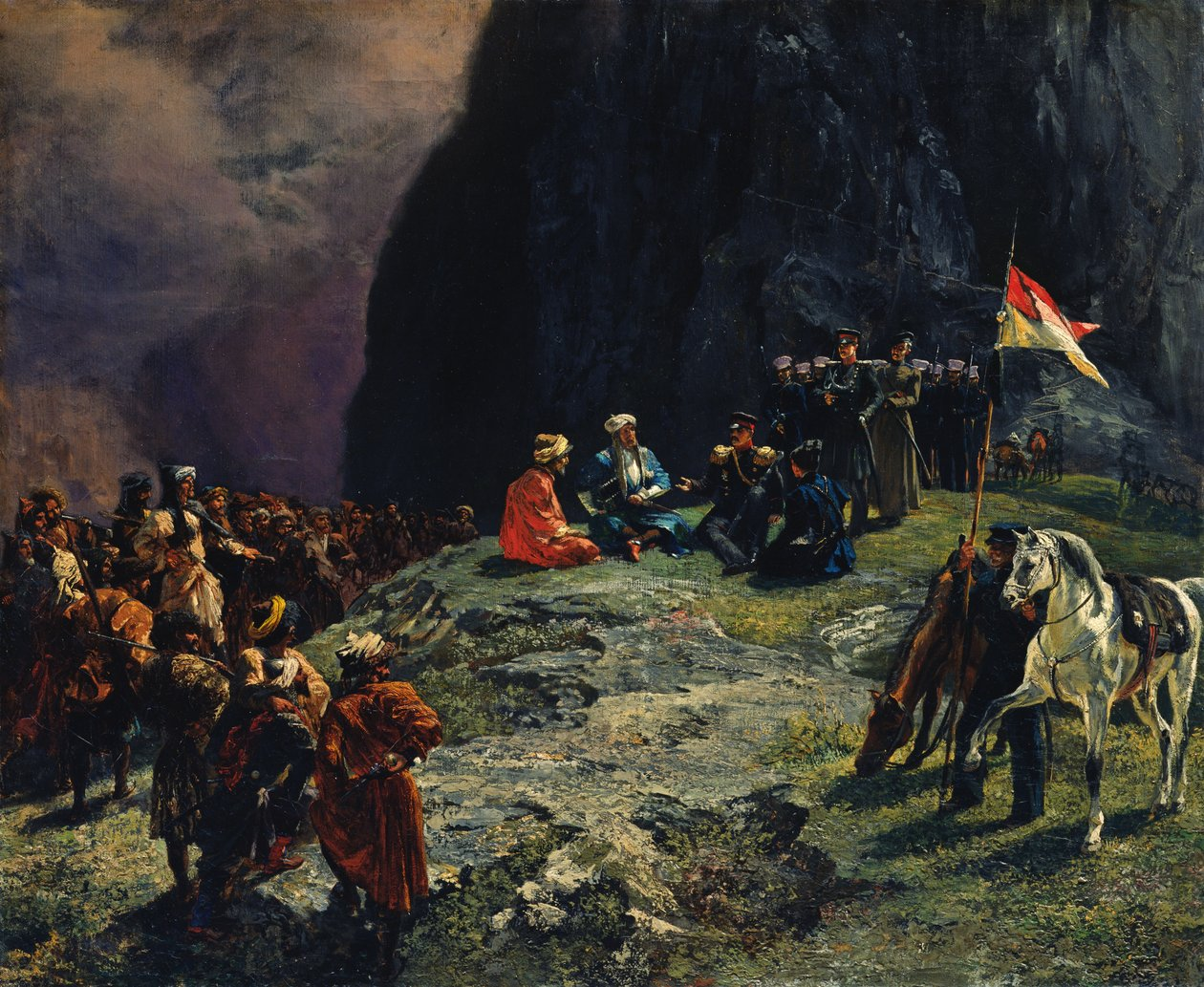 The Meeting of General Klüke von Klügenau and Imam Shamil in 1837 by Gagarin, Grigori Grigorievich (1810-1893), Russia, 1849. State Tretyakov Gallery, Moscow, oil on canvas, Russian Painting of 19th century